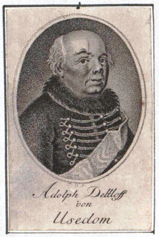 Adolph Dettloff von Usedom (1726–1792)